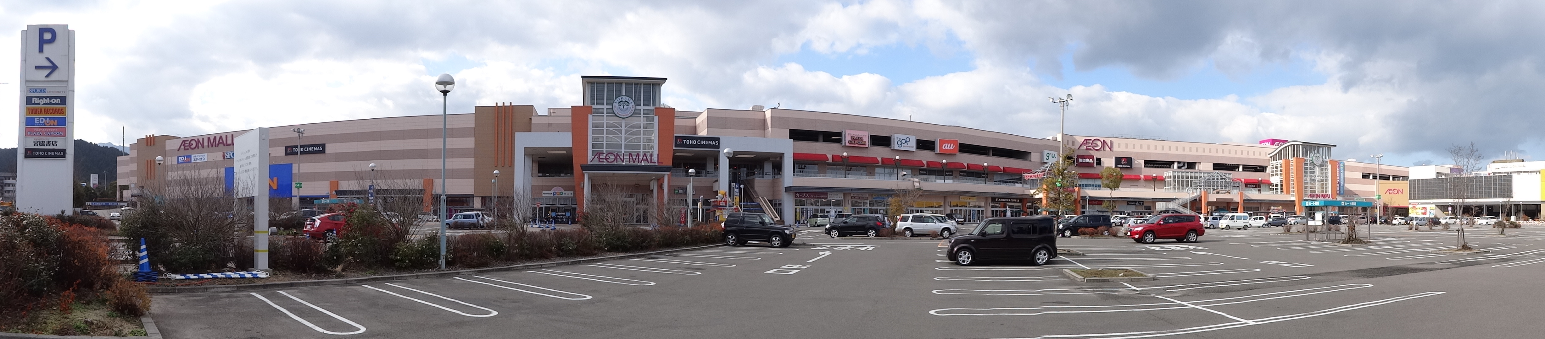 "Aeonmall Niihama" is a Shopping Center in Niihama City, Ehime Prefecture, Japan.